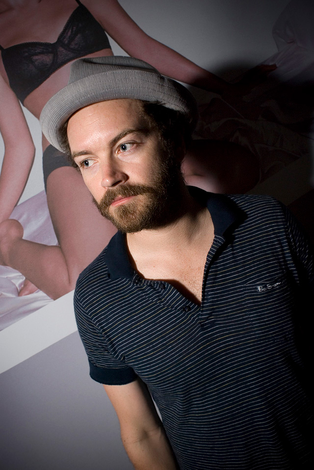 Danny Masterson